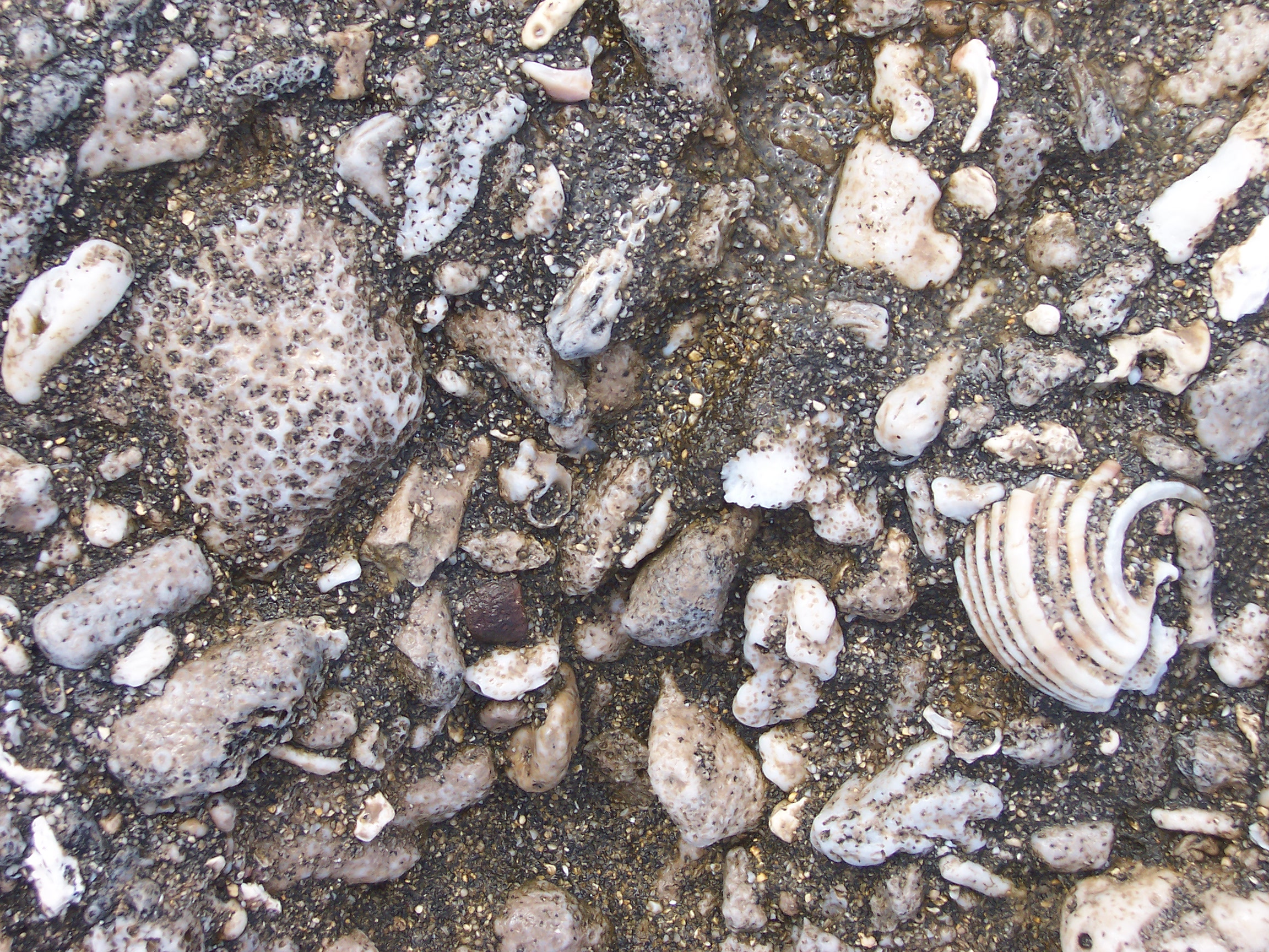 Detail of beachrock sandstone (with shells and coral fragments) from the shore of Saint-Leu Réunion island